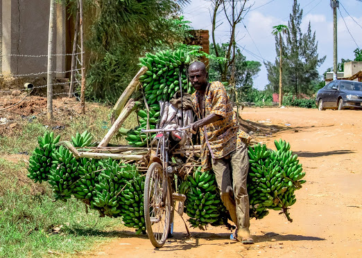 Transporting a load of matoke on a bicycle. This is an image of "African people at work" from Uganda